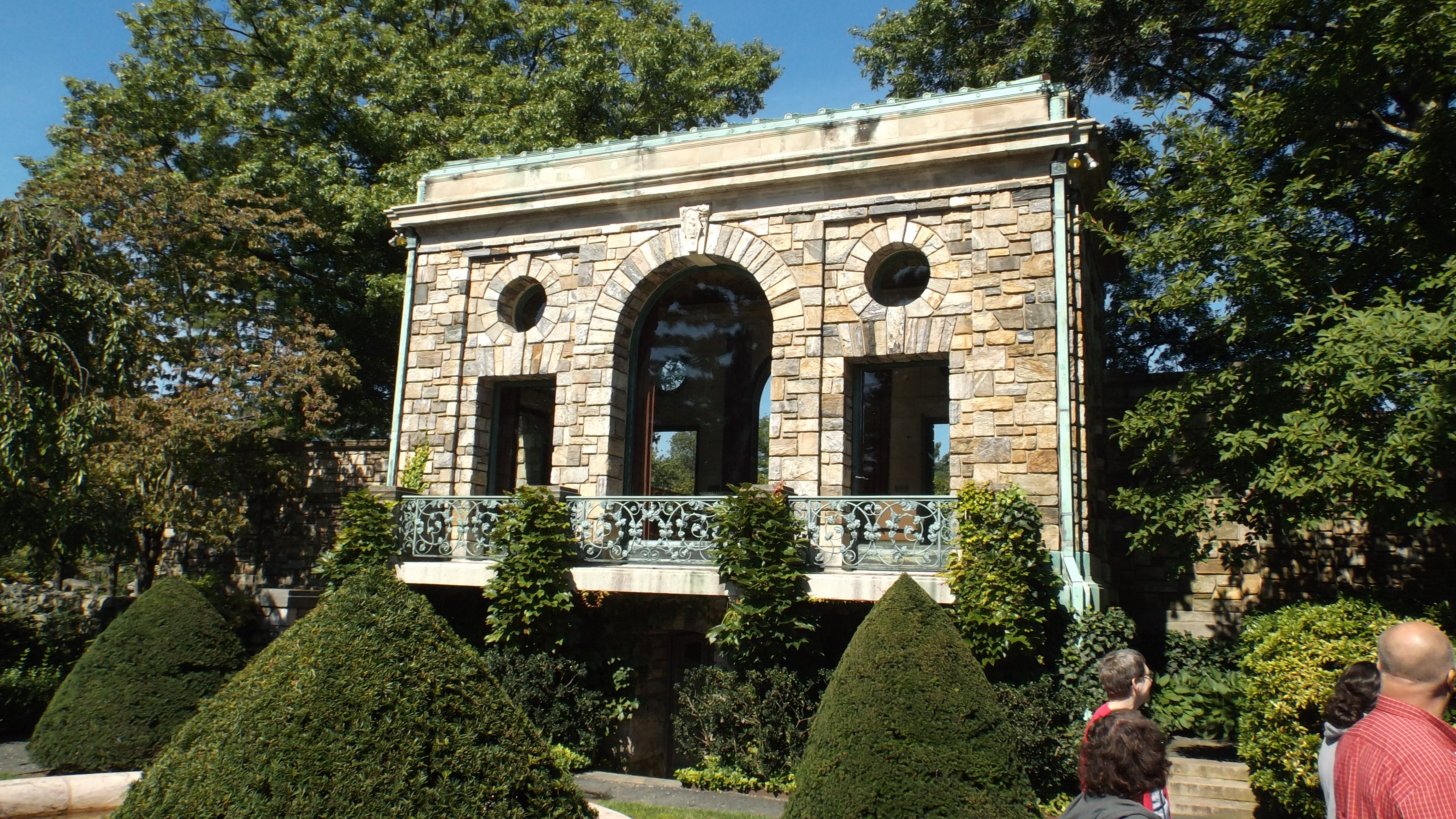 The Kykuit Tea house at the JD Rockefeller estate in Tarrytown NY